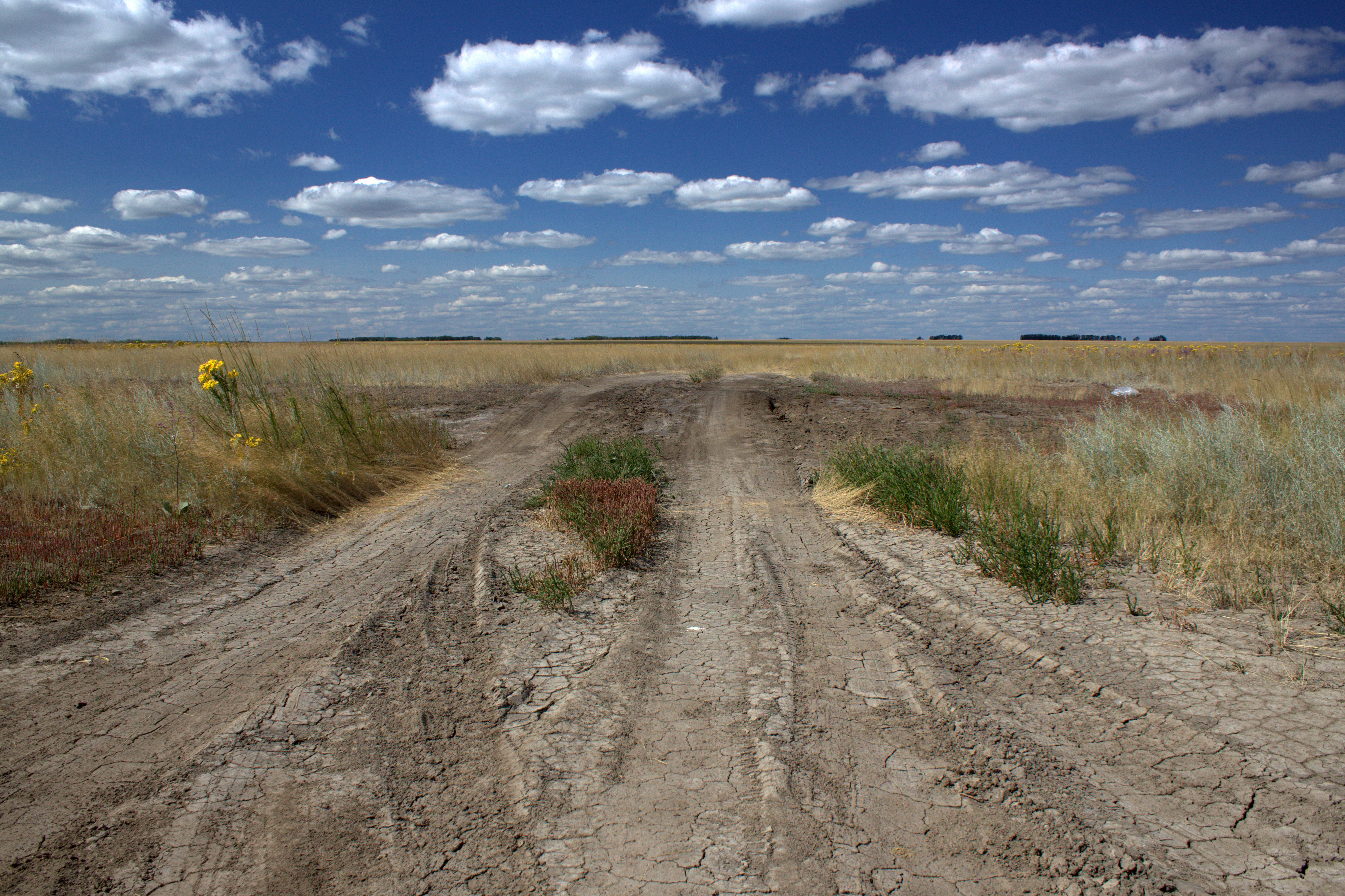 Kurumbel way